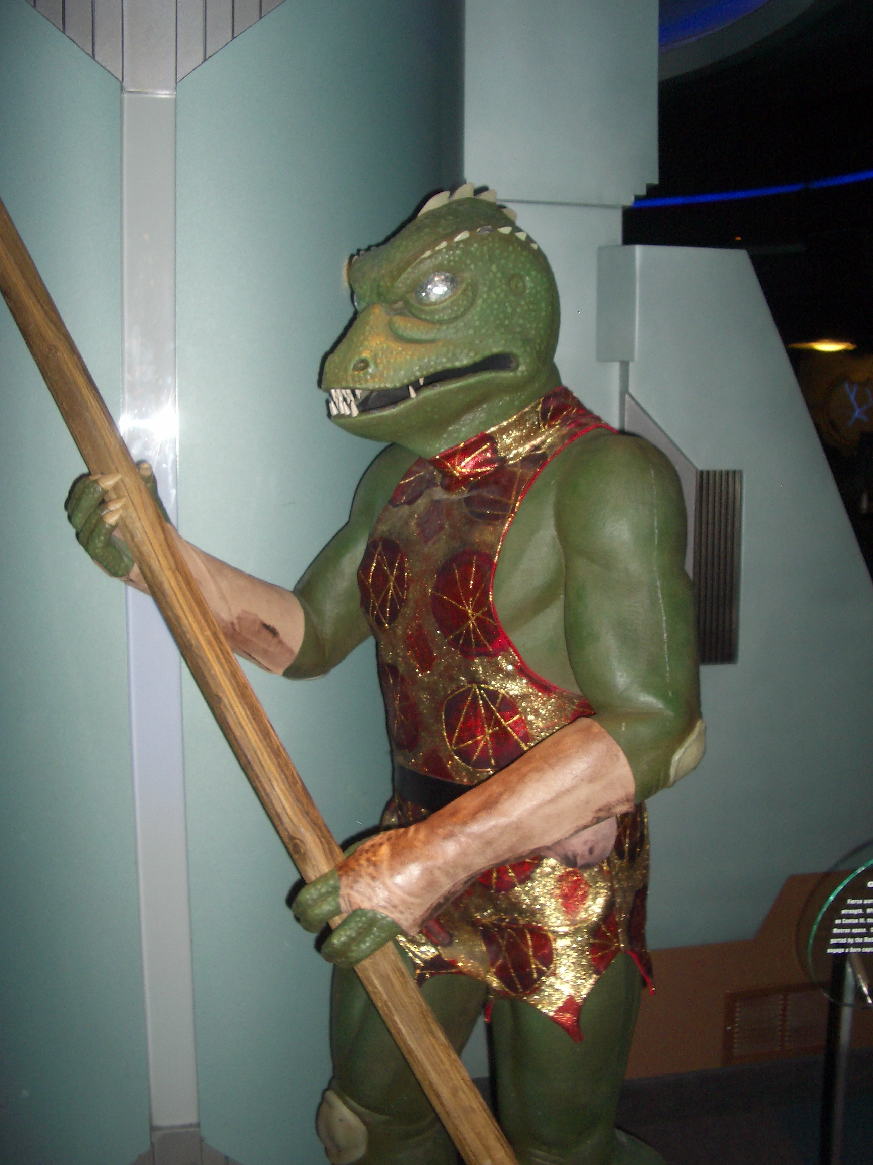 Gorn at Quark's bar